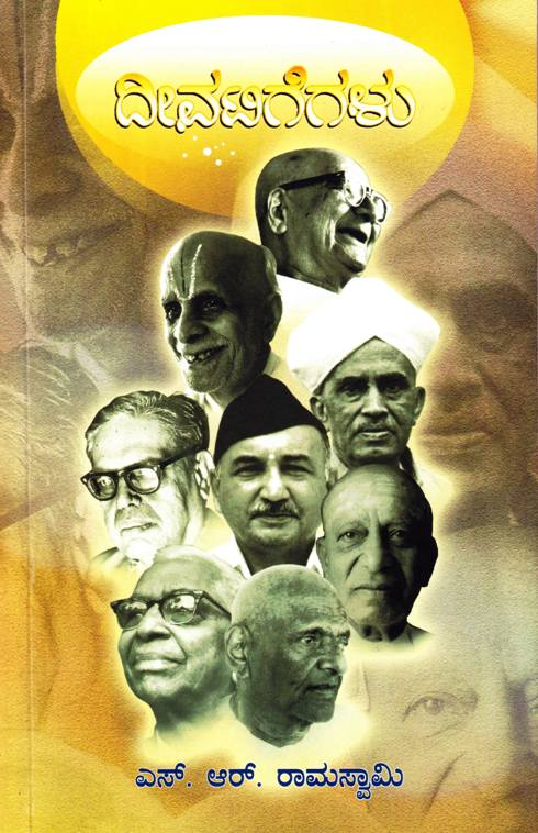 Deevitigegalu by S. R. Ramaswamy - A Collection of biographies